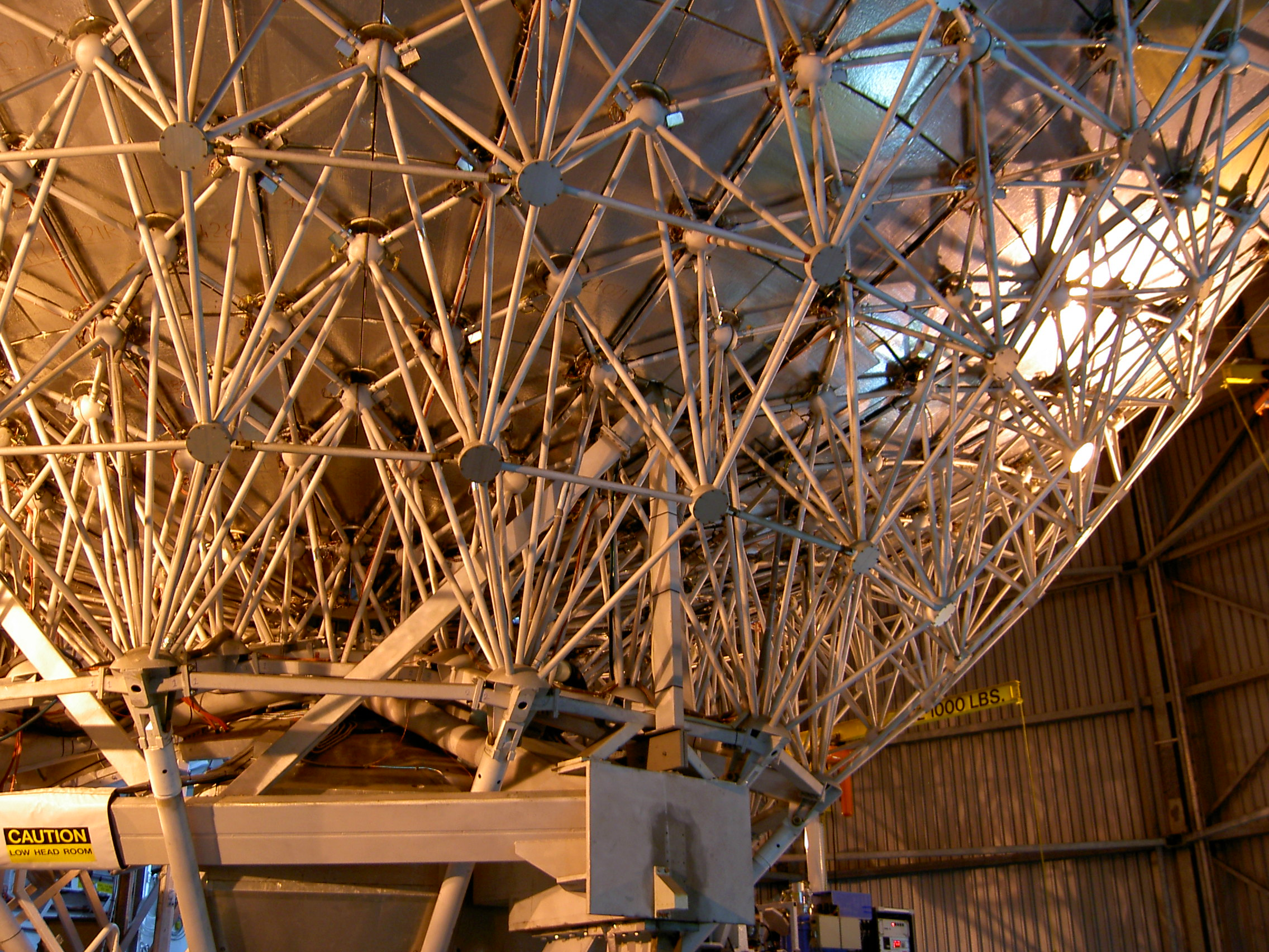 The submillimeter James Clerk Maxwell Telescope primary mirror seen from behind, showing the panels it is made of.